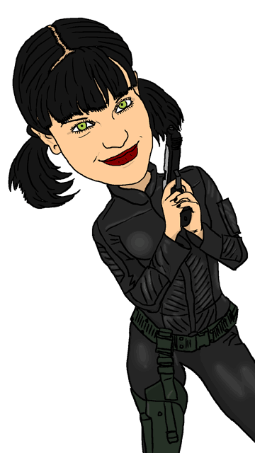 NCIS Abby Sciuto alias Pauley Perrette